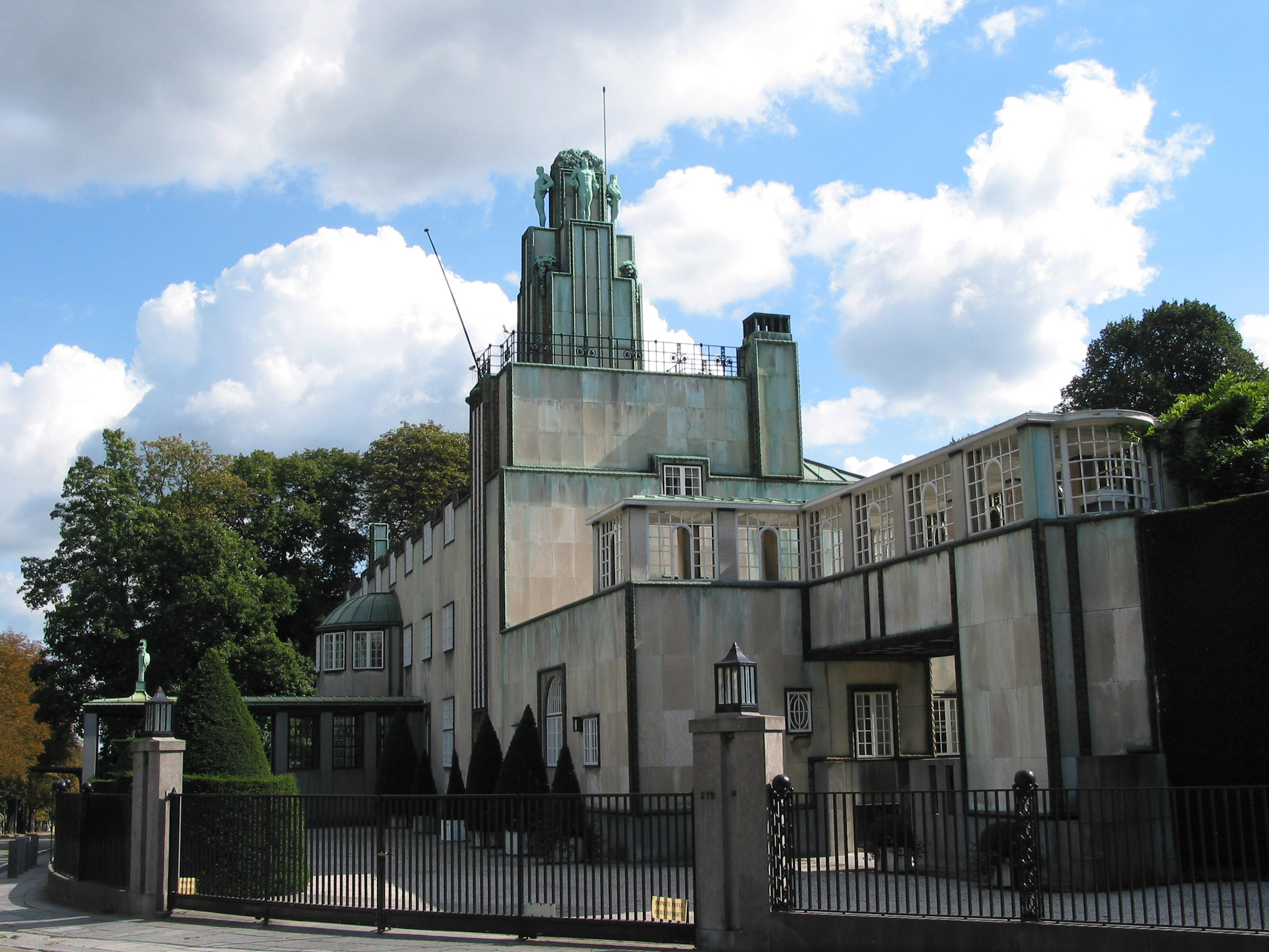 View of Stoclet Palace from avenue de Tervuren, Brussels, Belgium (1905/1911 - Architect: Joseph Hoffmann)